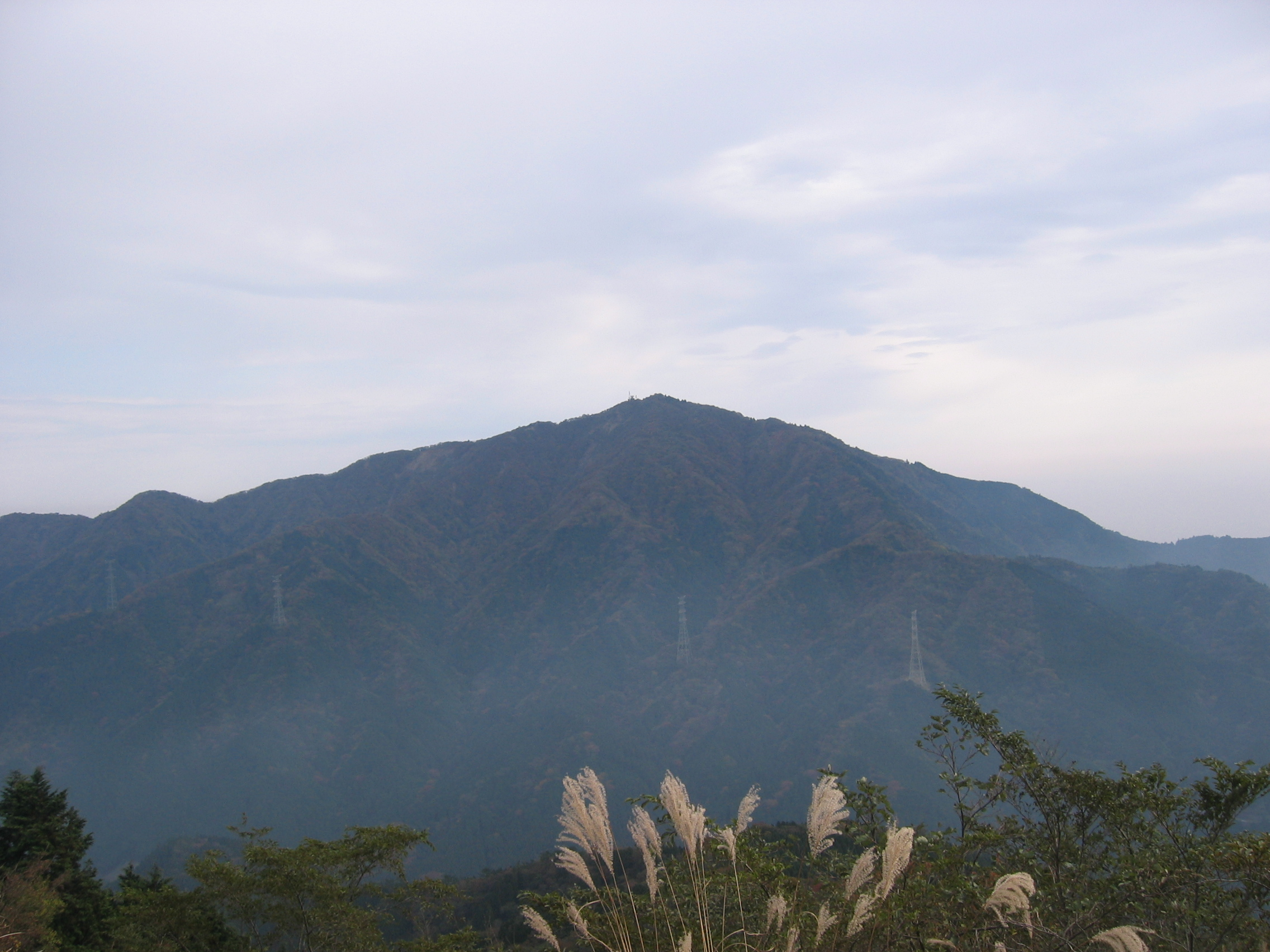 Ōyama in Kanagawa Prefecture seen from around the Ninotō slope. (November 2005)